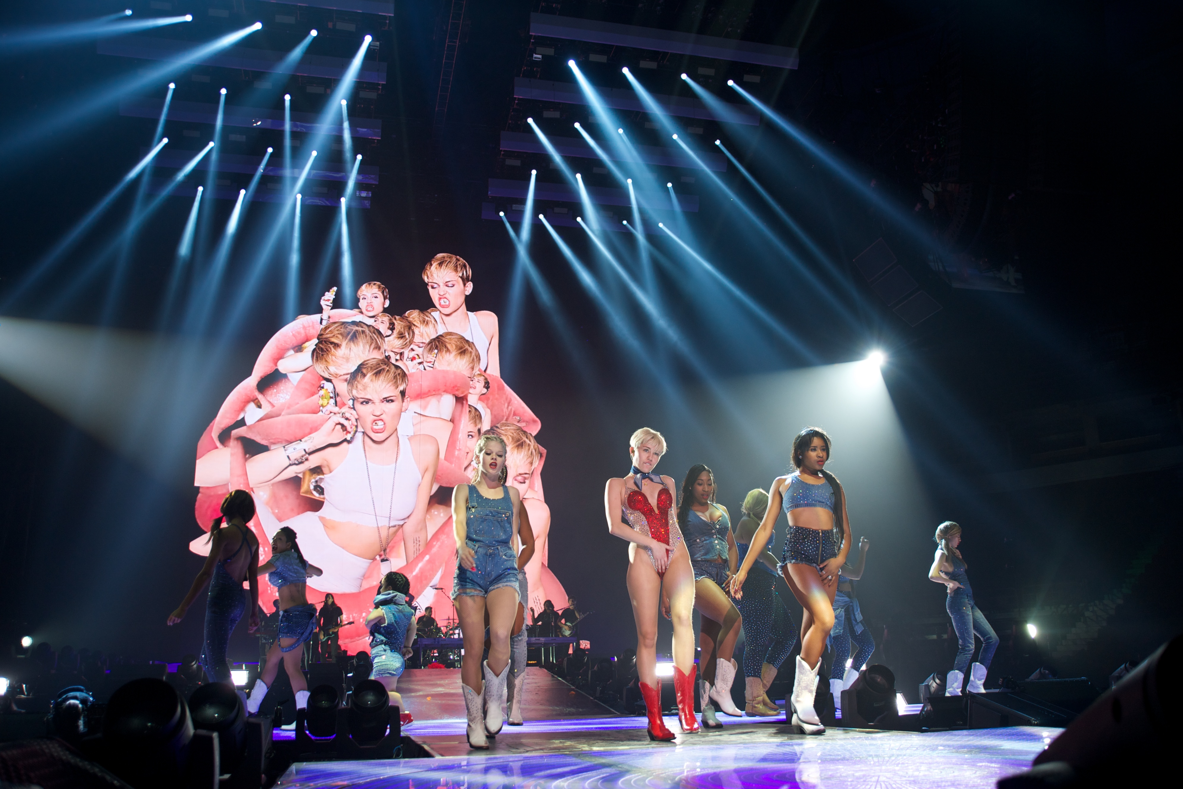 Miley Cyrus performing in Vancouver in 2014